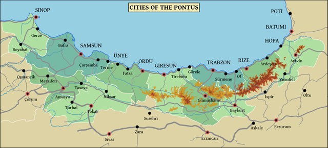 A map of the Pontus including cities and provinces